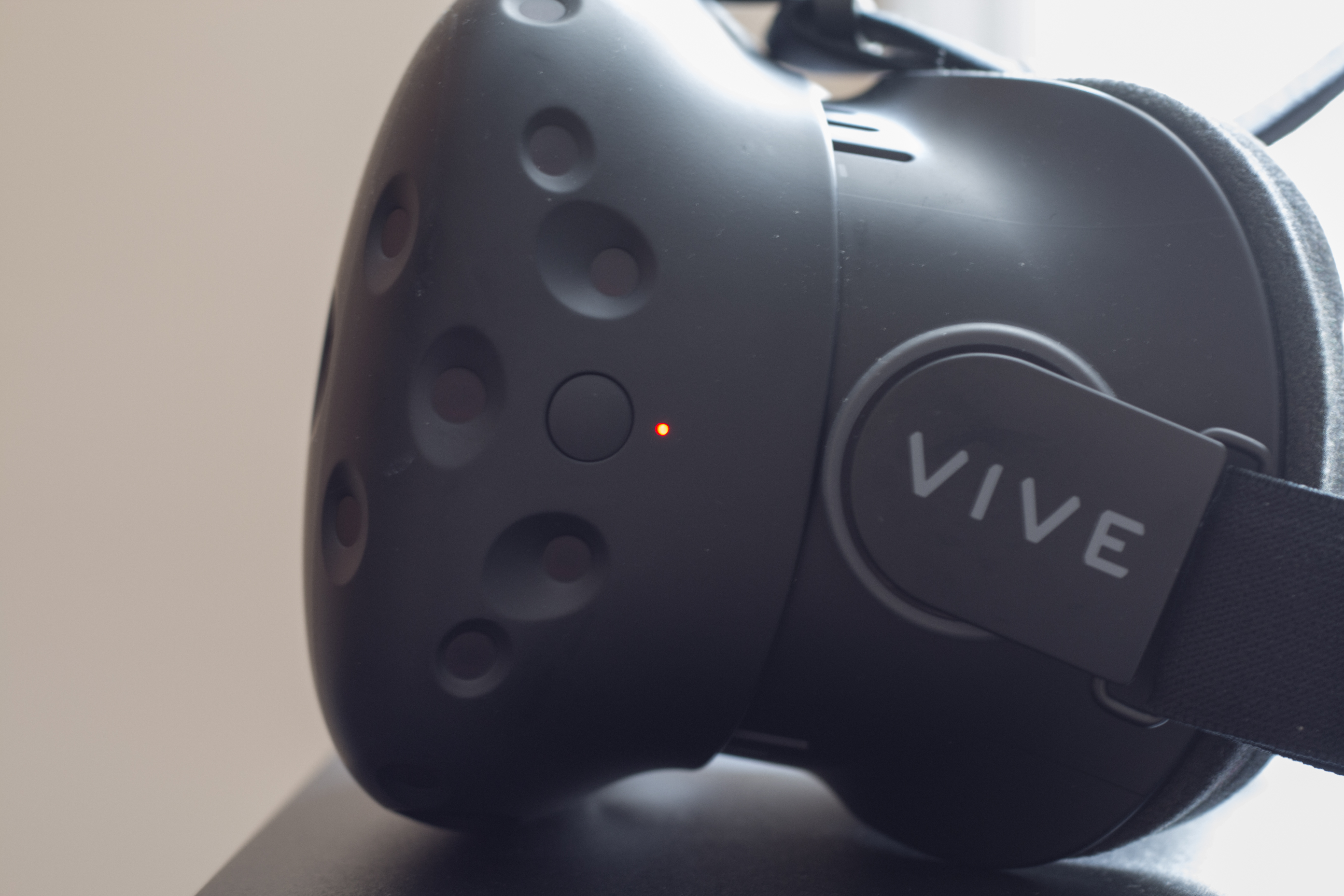 Side of HTC Vive headset, power button and indicator shown